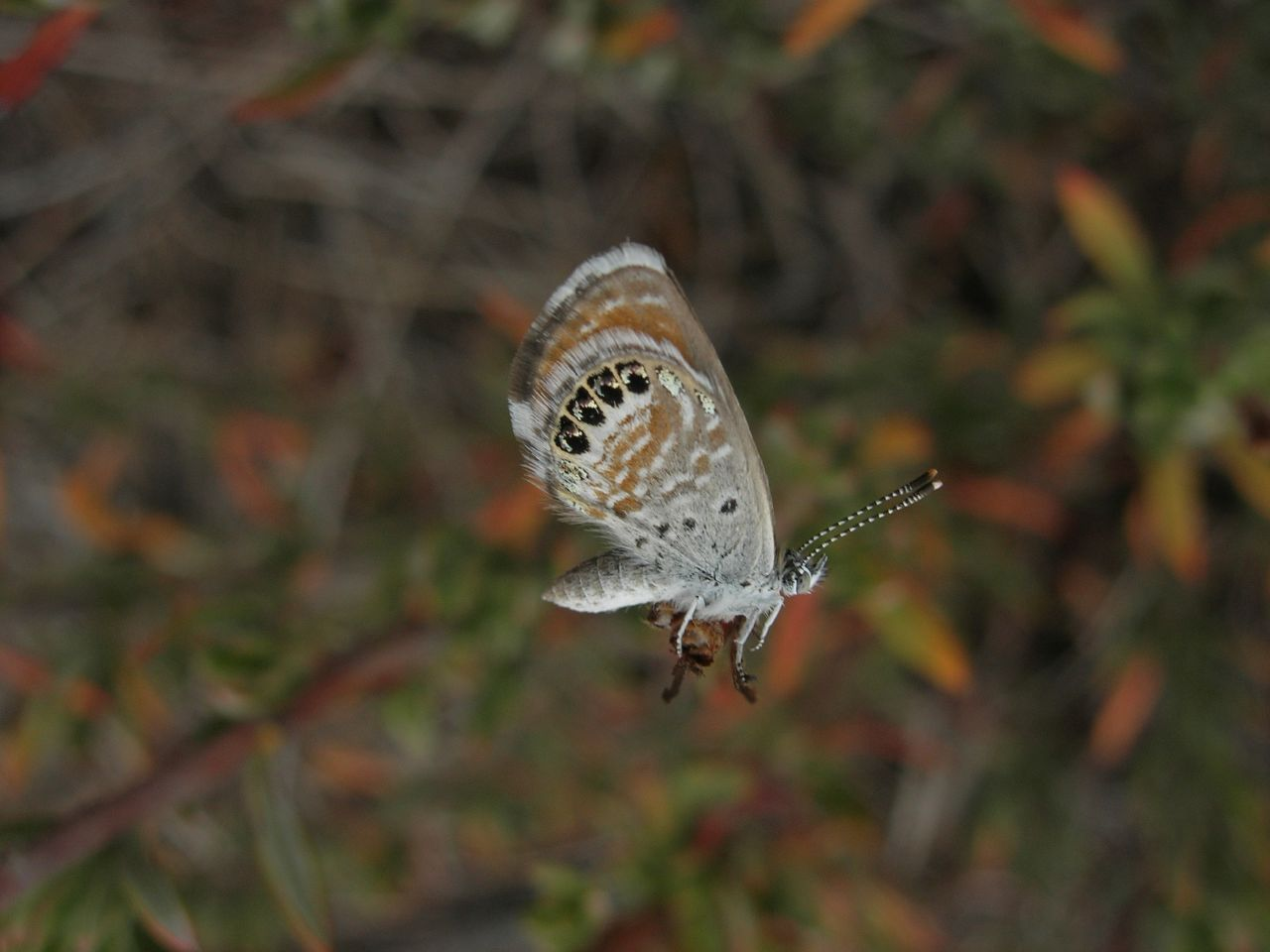 western pygmy blue (Brephidium exilis) -- the smallest North American butterfly. thanks to Mickey Long for the ID